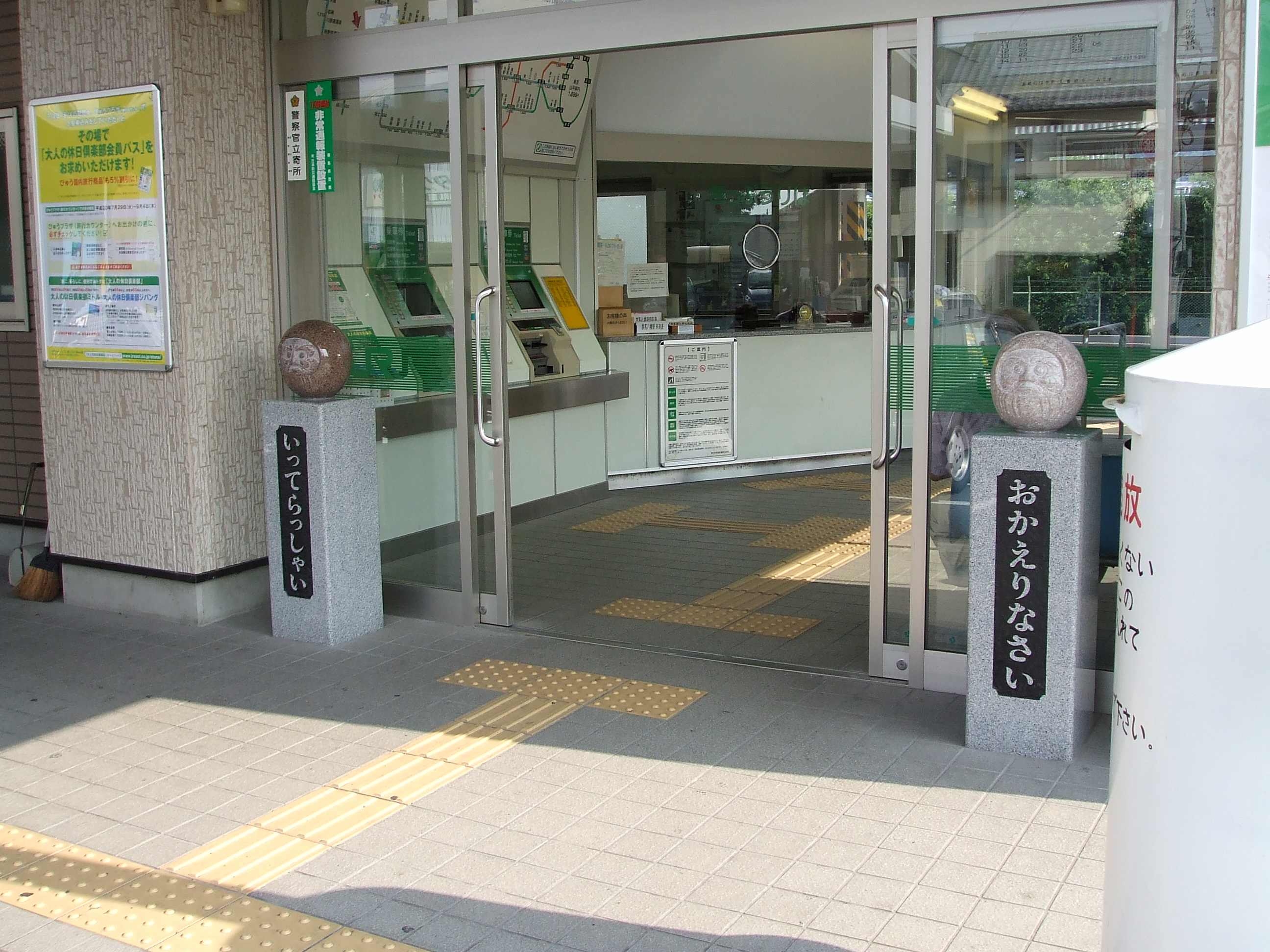 The enterance of Gumma-Yawata Station